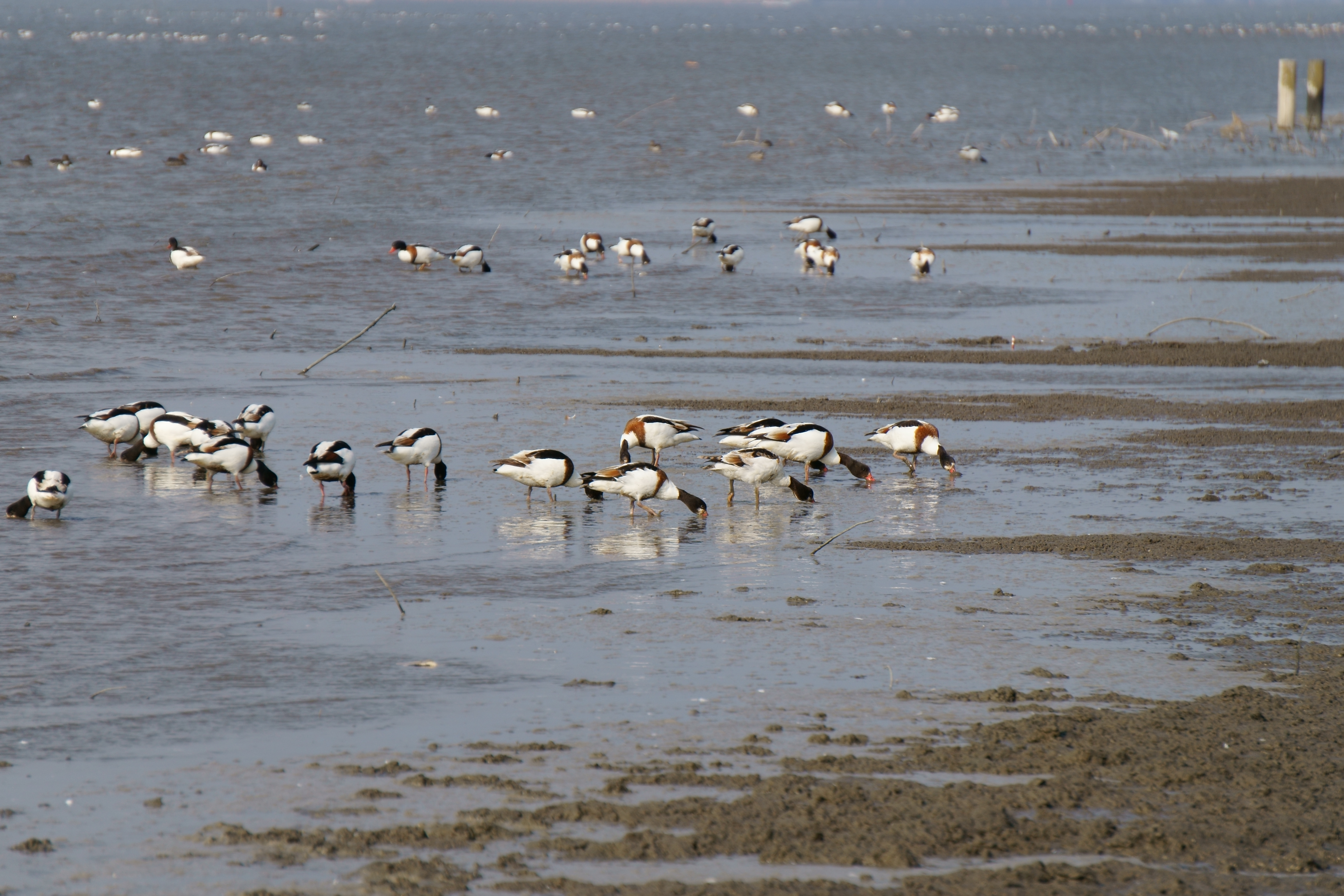 Common Shelduck(Tadorna tadorna) are looking for food on the mudflat, at high tide, in Higashiyoka-higata(tidal flat), Saga city.